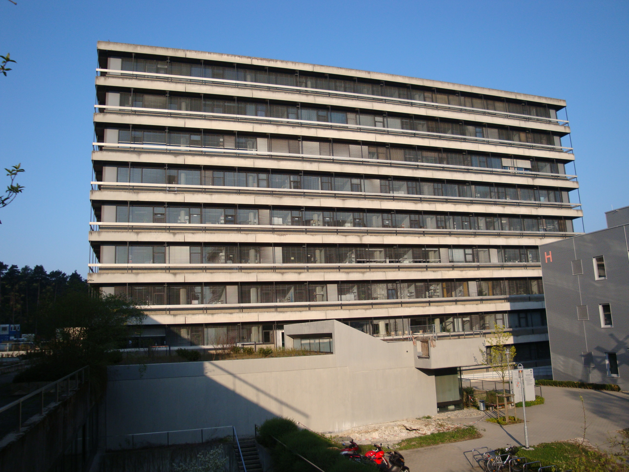 Pharmacy building Tuebingen